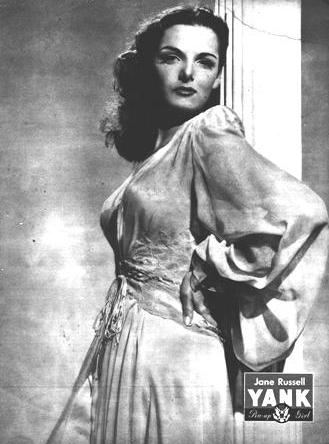 Pin-up photo of Jane Russell for the Sep. 21, 1945 issue of Yank, the Army Weekly, a weekly U.S. Army magazine fully staffed by enlisted men.